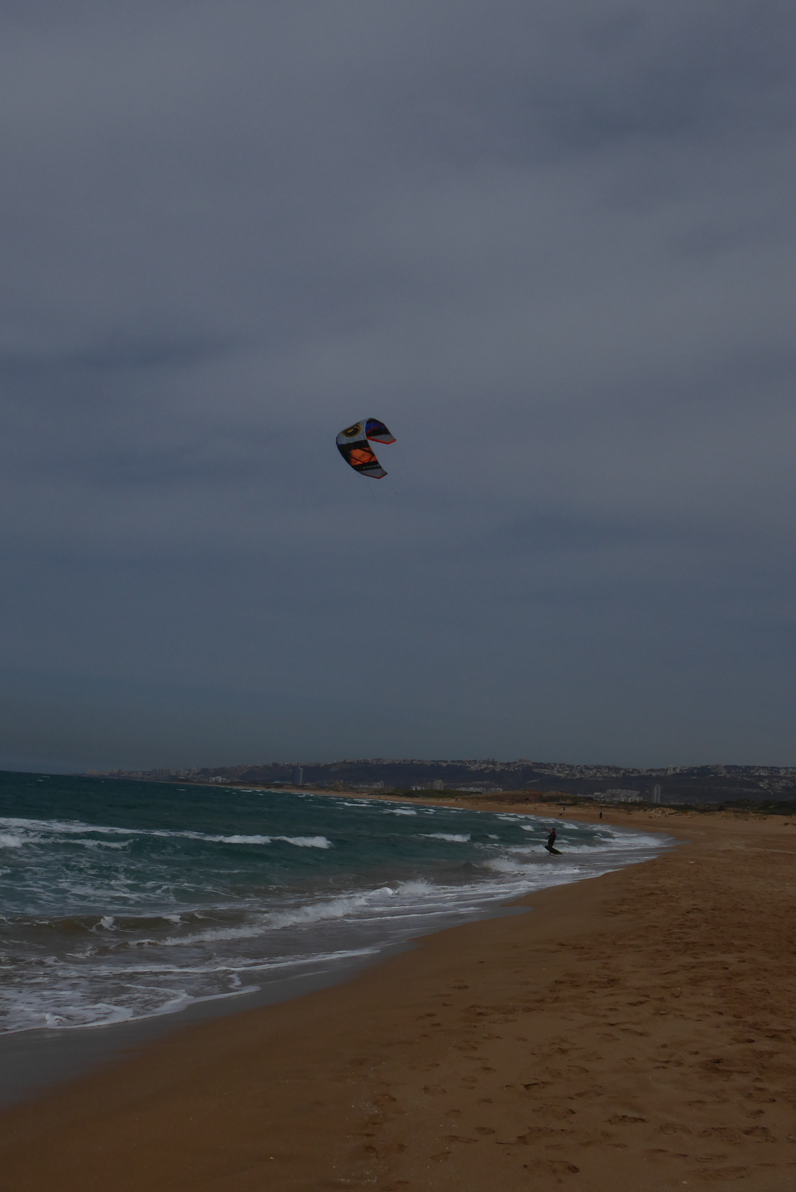 Beaches of Israel